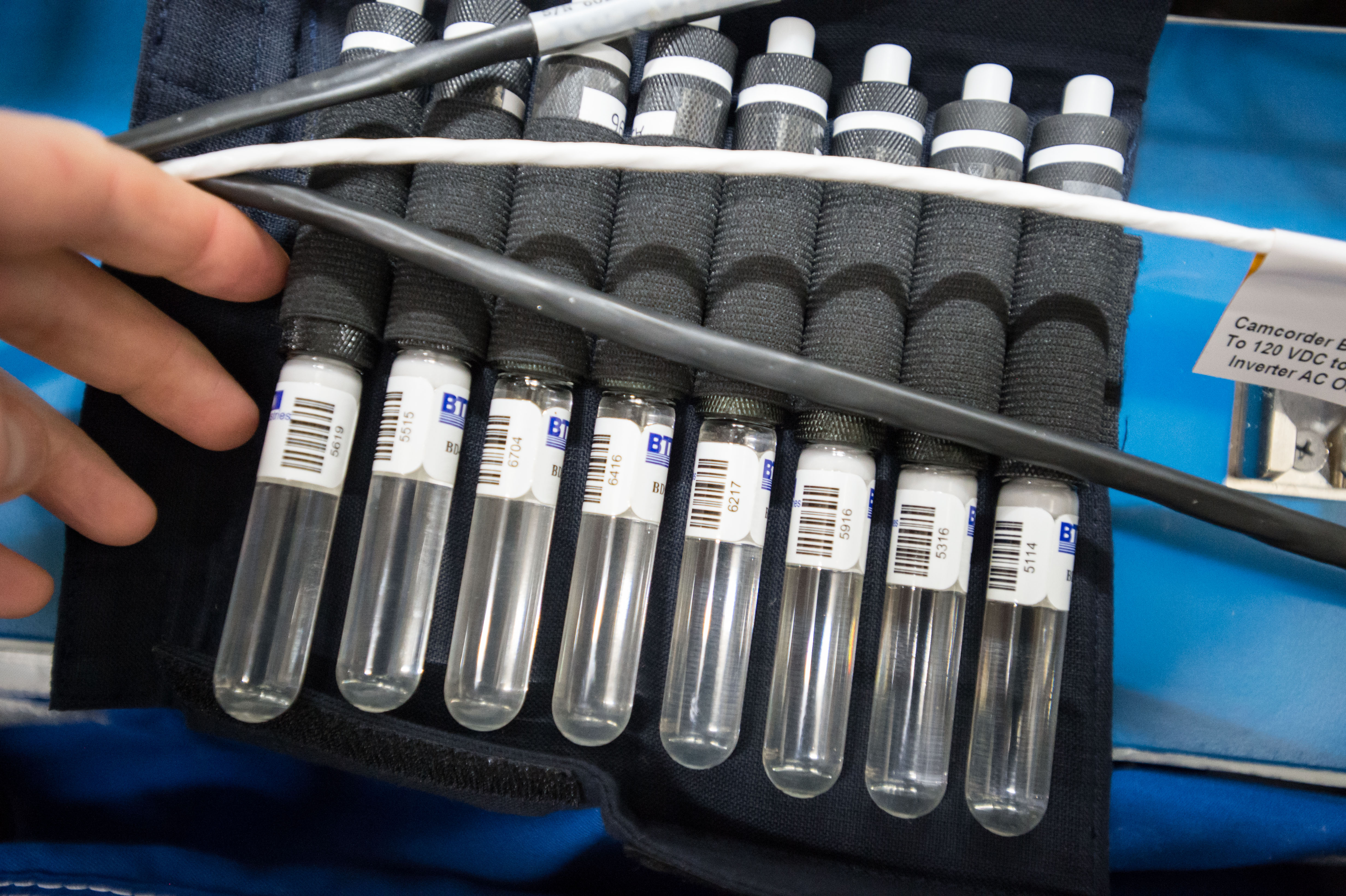 View of Radi-N Space Bubble Detectors in their deployed location of the Japanese Experiment Module (JEM) Pressurized Module (JPM).